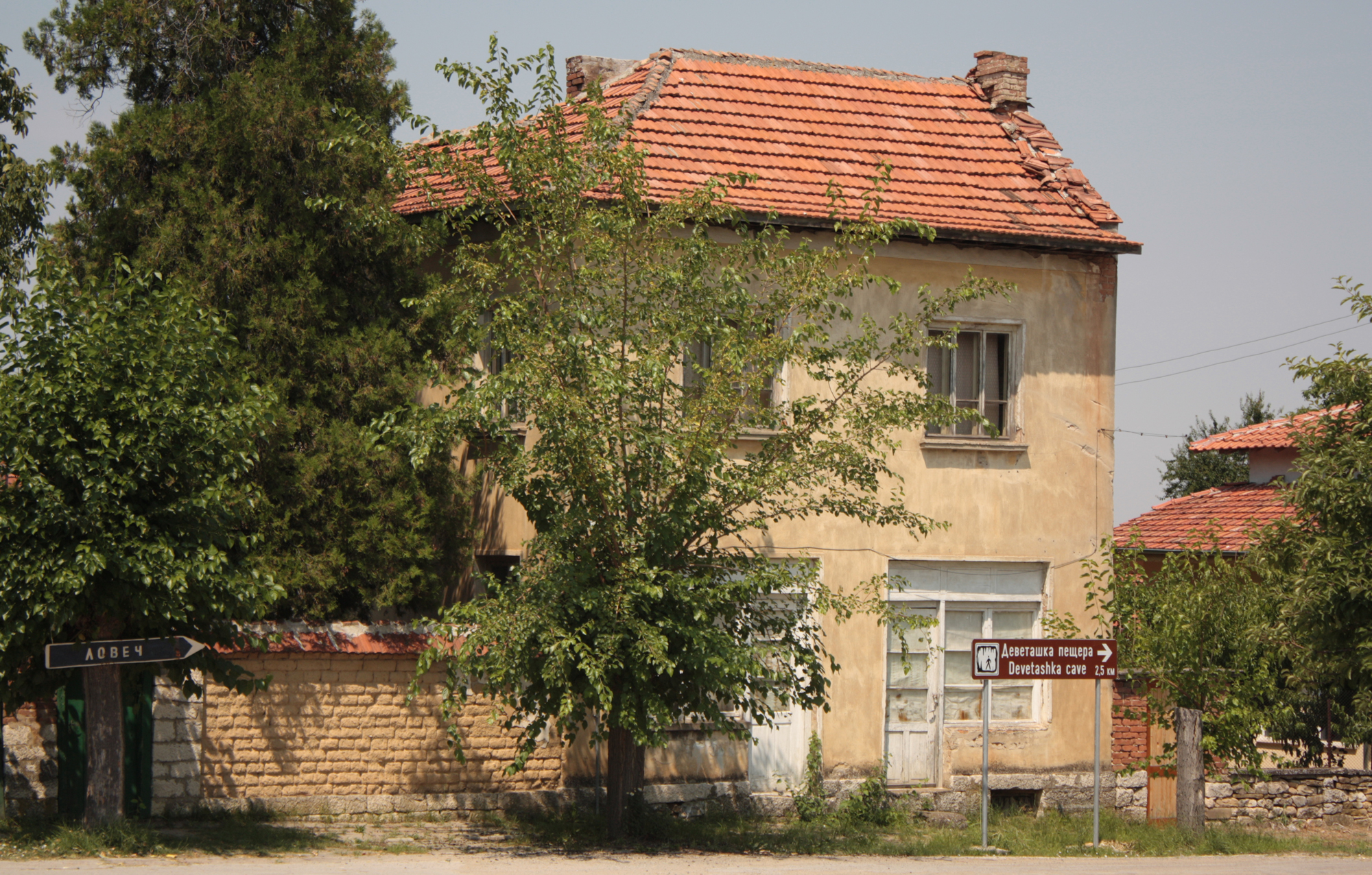 A road sign to Devetaki cave, Devetaki village, Bulgaria